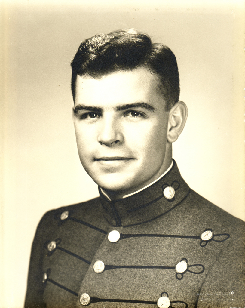 Photo of Warren Lee Carpenter, when he was a cadet at VMI.